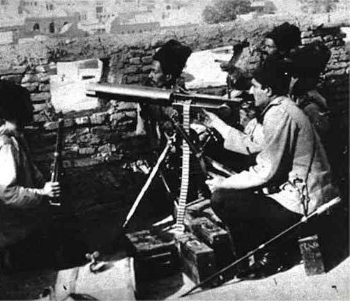 Reza Khan